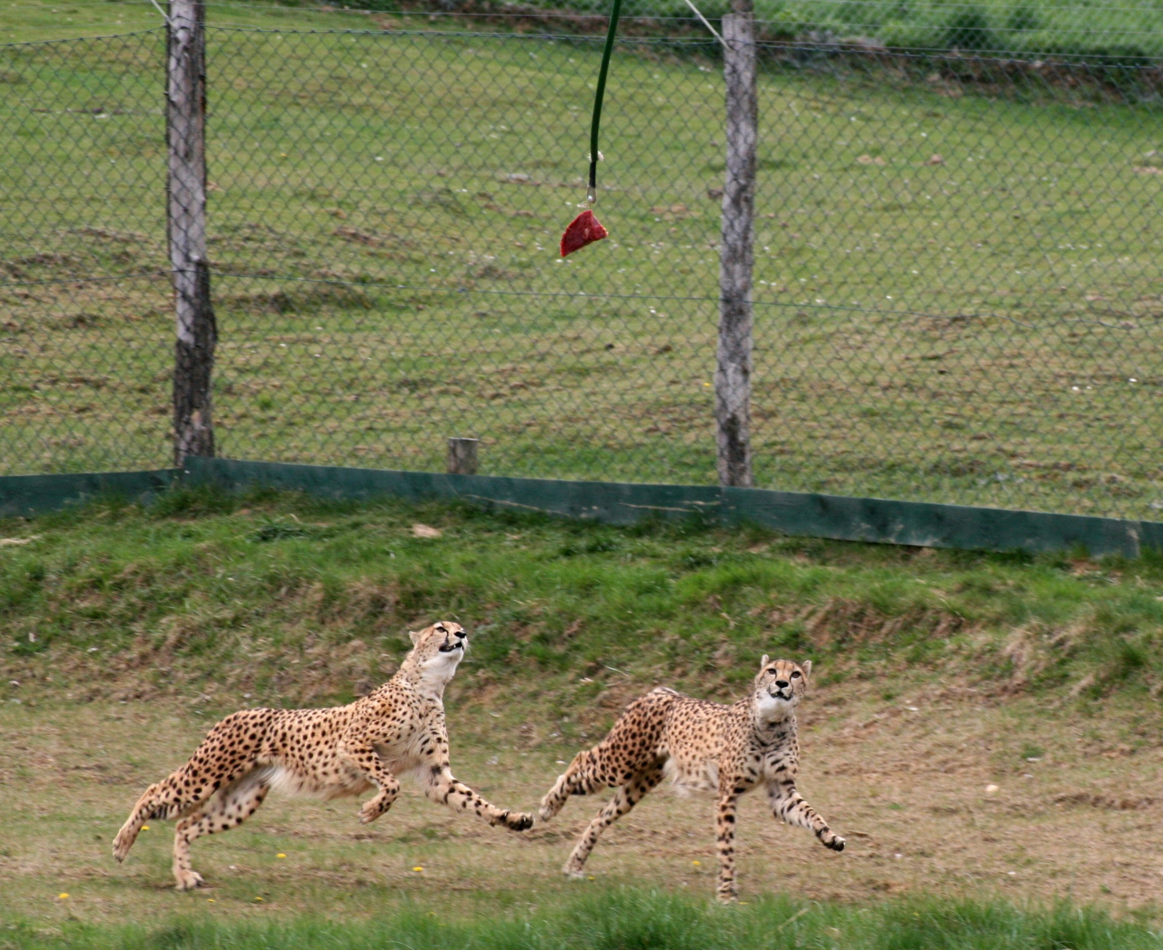 Cheetahs in Herberstein zoo near Stubenberg, Styria, Austria, Europe: feeding with prey simulator.